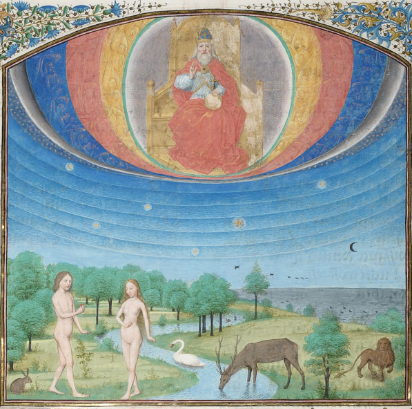 The Earthly Paradise. Les Sept Âges du monde. KBR ms. 9047, f. 1 (Adam and Eve)